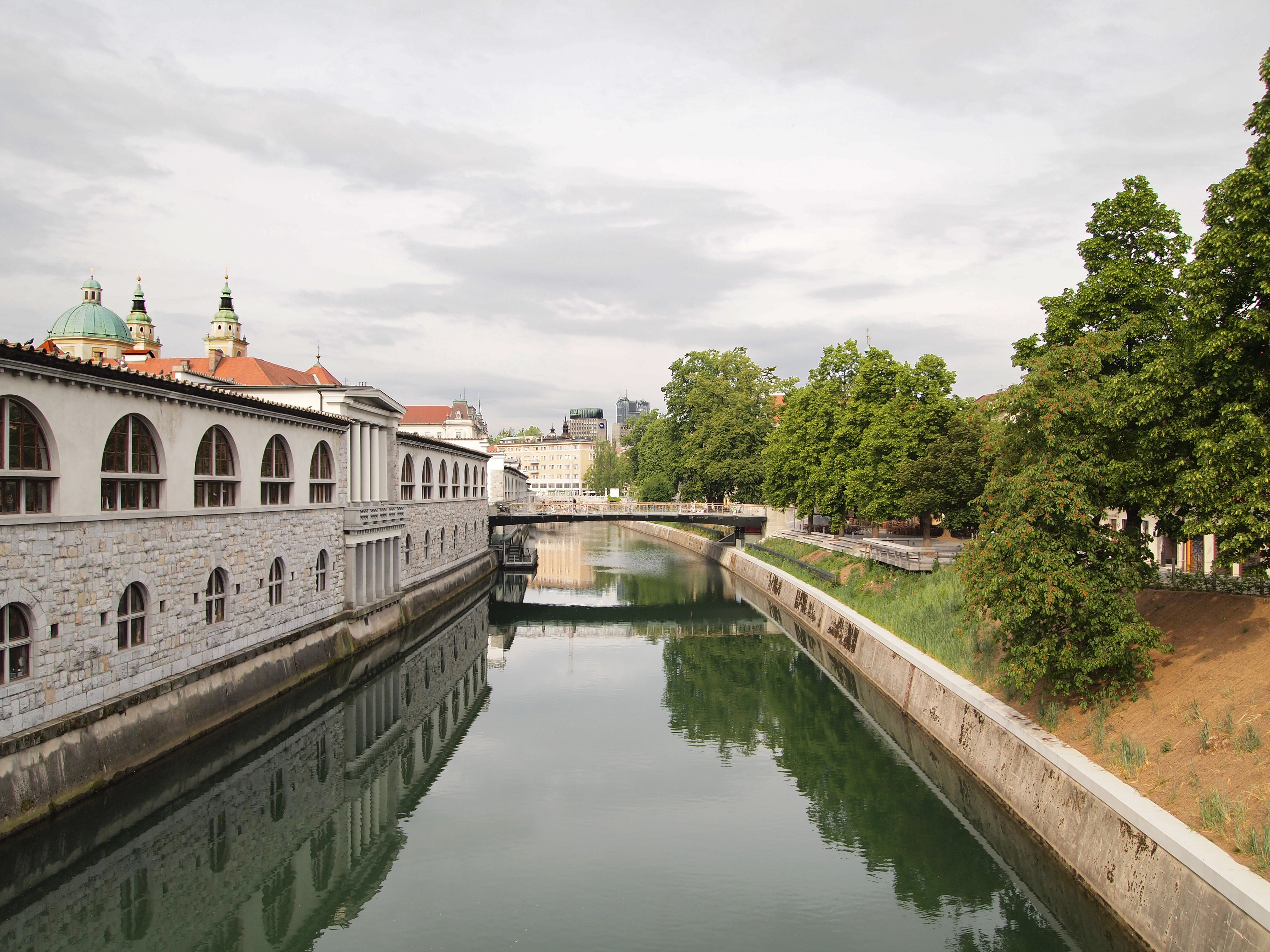 Ljubljanica river in Ljubljana. View from Dragon Bridge.